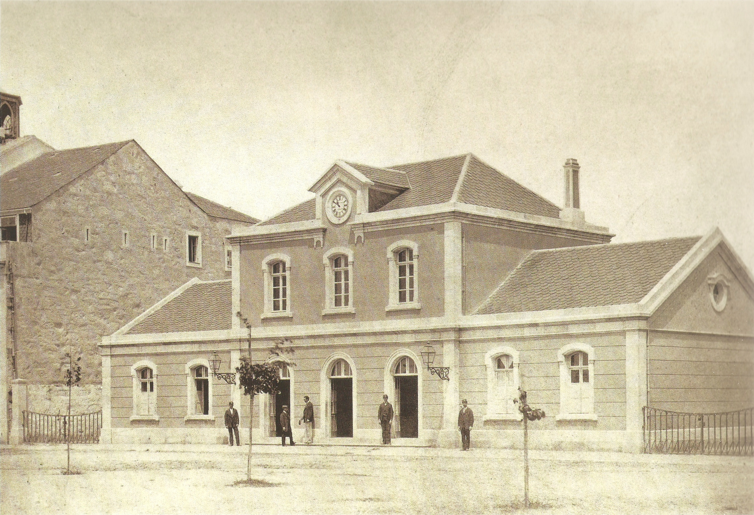 Boavista Railway Station, in the city of Porto, in Portugal. This photograph is from 1875, year of the inauguration of the station.